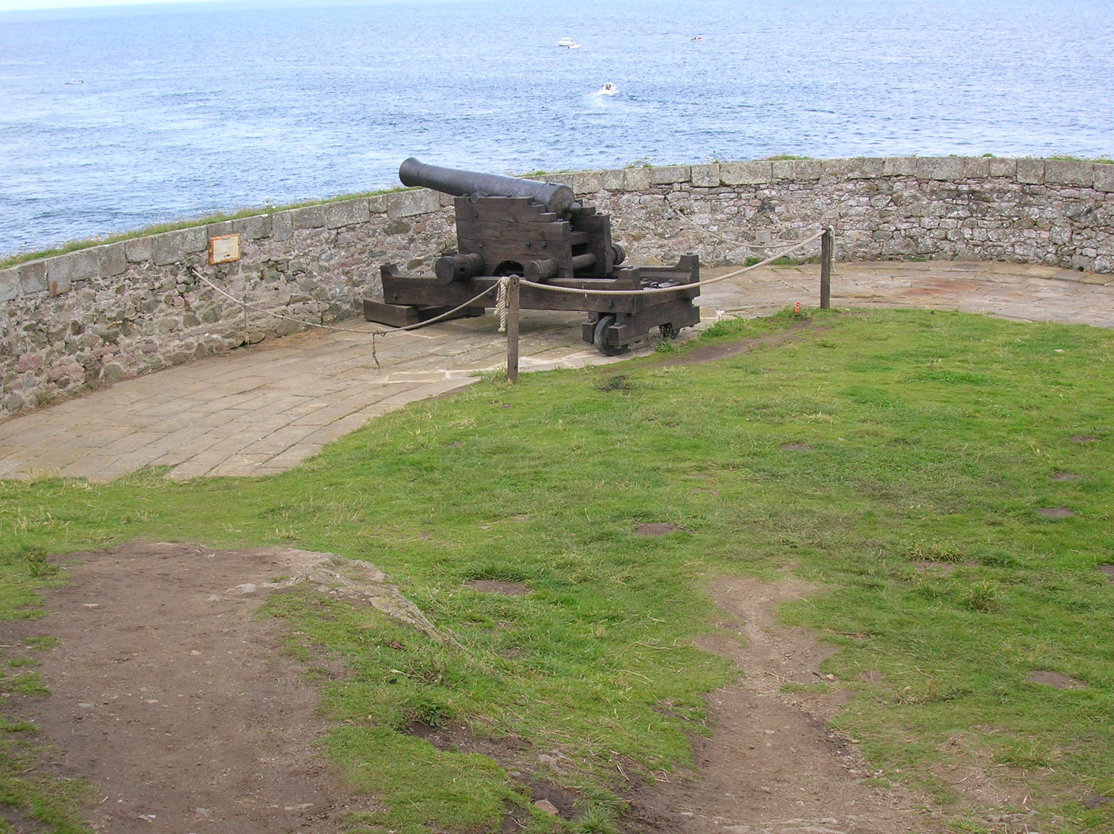 Fort La Latte, Côtes d'Armor, France : Un des huit canons du fort, 1778, calibre 18, distance 1000 m (One of eight artillery of the fort, 1778, calibre 18, outstrips 1000 m)